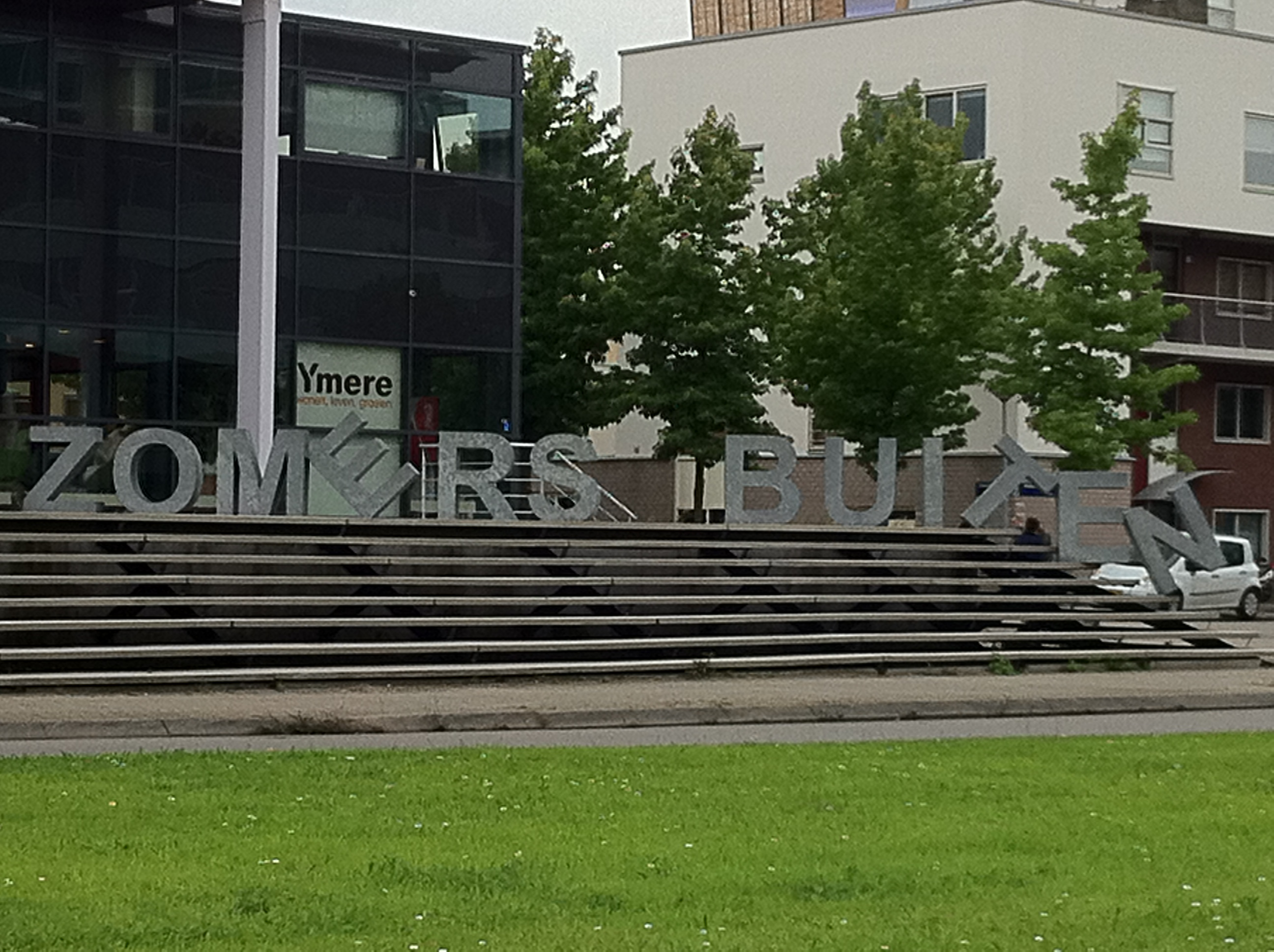 Zomers Buiten Anderlechtlaan 200 Amsterdam (Sloten), voormalig hoofdkantoor